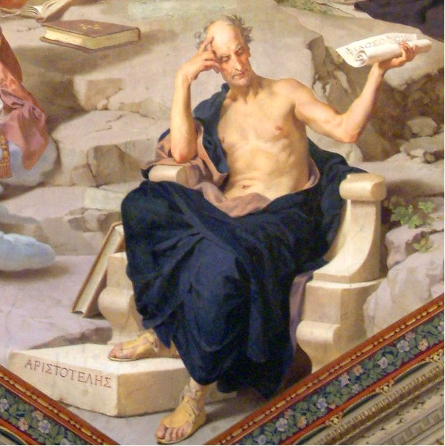 Detail showing Aristotle